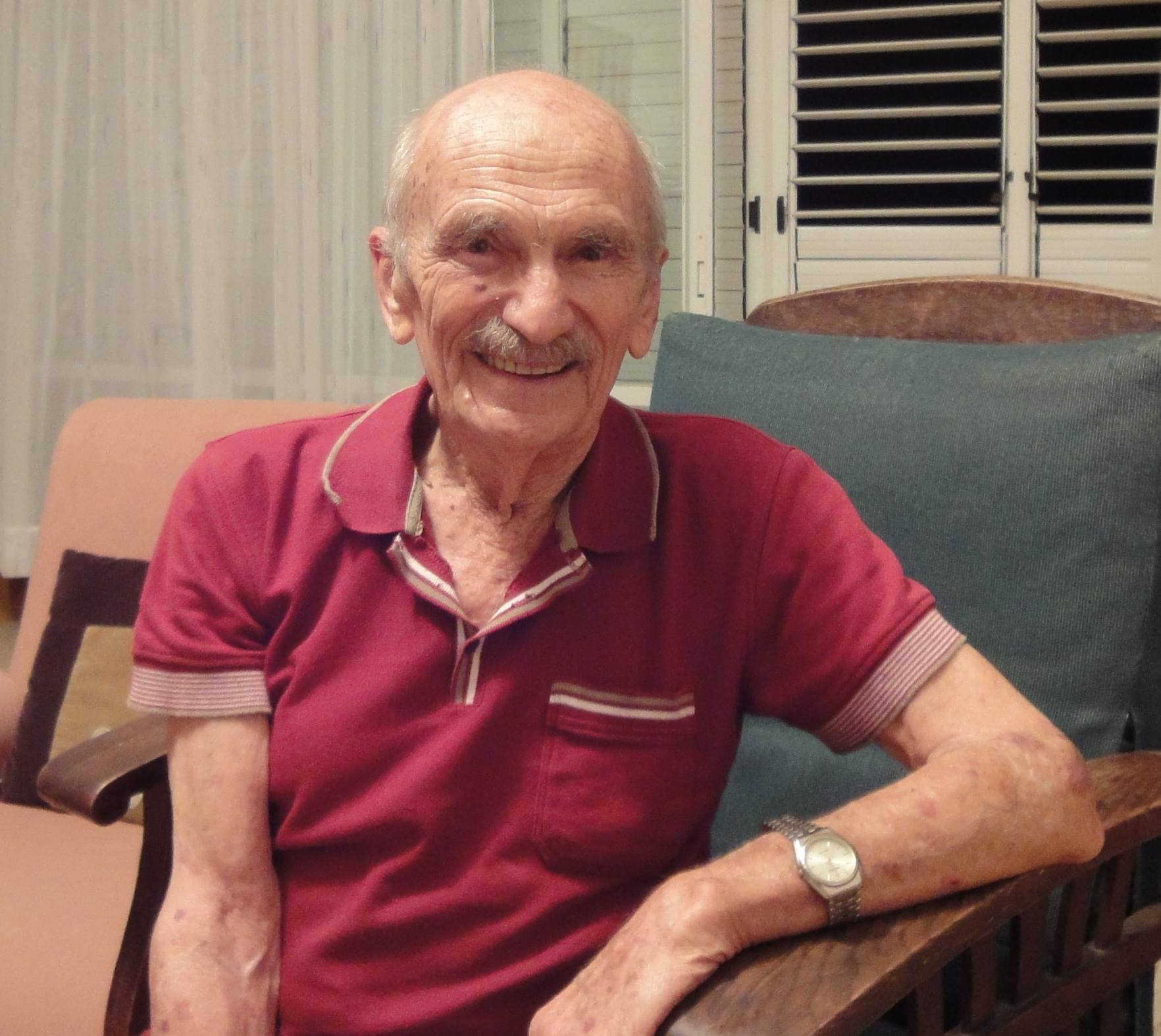 Prof. Uzzi Ornan at his home